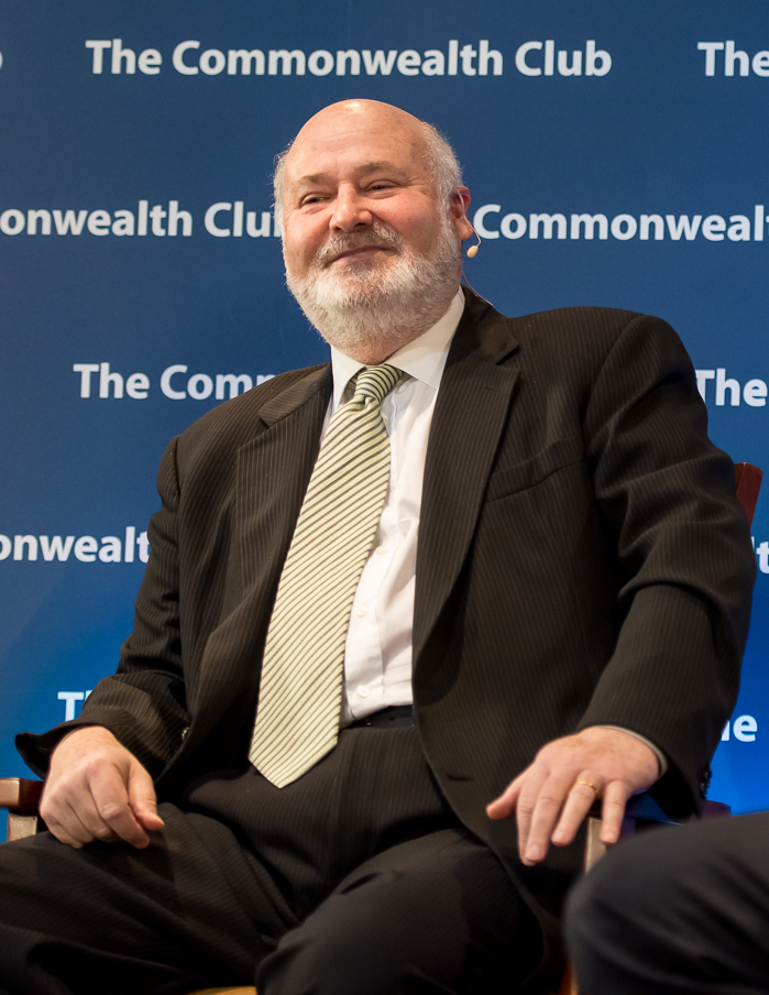 Actor/director/activist/businessman Rob Reiner (left) was in conversation at The Commonwealth Club with ABC 7 news anchor Dan Ashley. Feb. 1, 2013, photo by Ed Ritger.